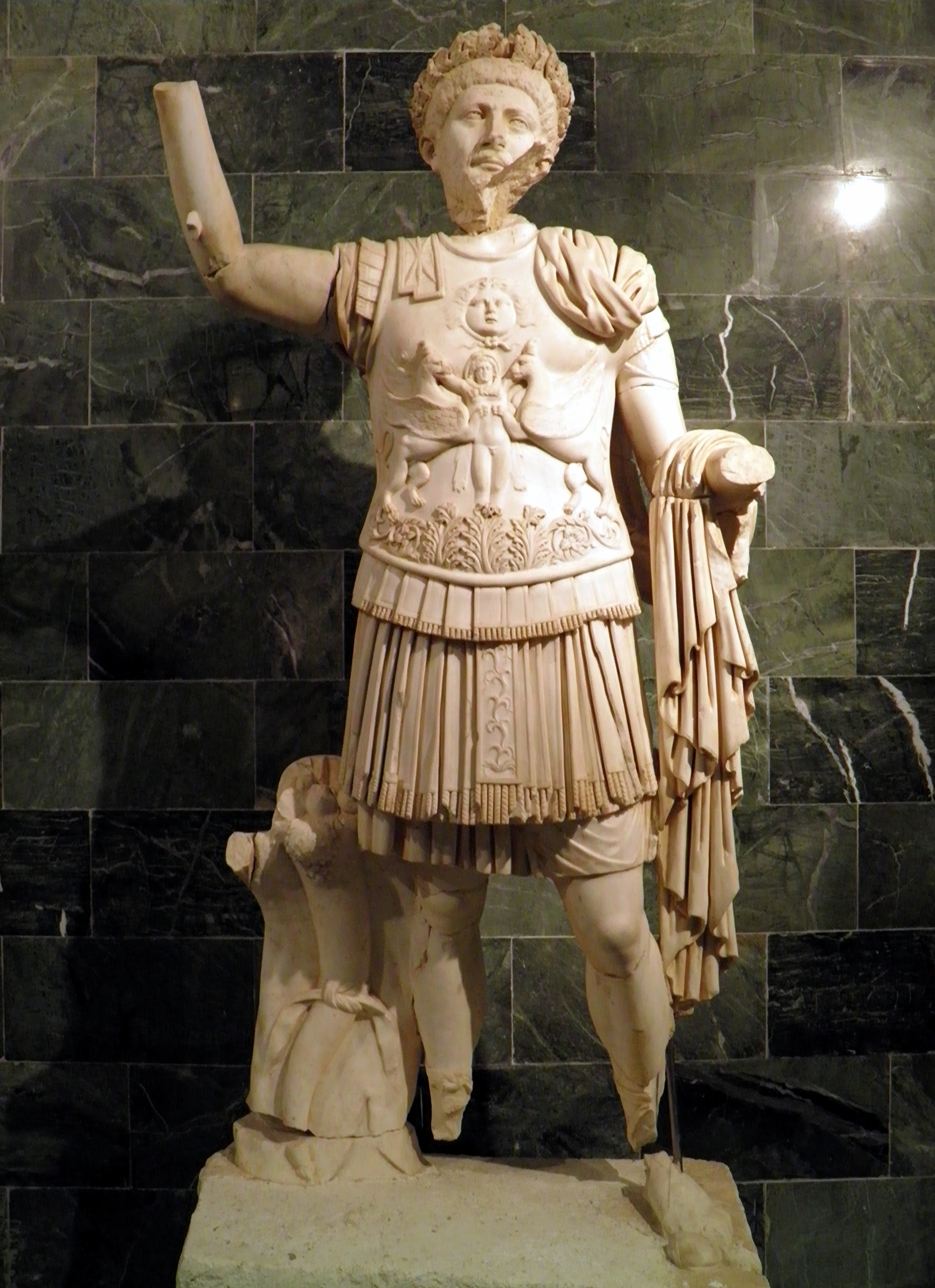 This statue is of particular importance because the head and the body of the statue are from different periods. The head, dating from the 2nd century AD, has been recarved in a style suitable to 3rd century taste with the emperor being given a new image. The 3rd century carvers made changes to the hair, which is like a wig, as well as changes to the beard, mustache, pupils and carved wrinkles on the forehead. Trajan, whose statues are portrayed beardless in the 2nd century, is portrayed with a beard and mustache on this 3rd century statue. Making changes to an old portrait was not usual in previous periods but it became more common towards the end of the 3rd century. This method of re-using old portraits combined with newly carved materiel was often used during the rearrangement and decoration of the stage-building of the theatre at the end of the 3rd century. Source: Antalya Museum: Sculptures of the Perge theatre gallery